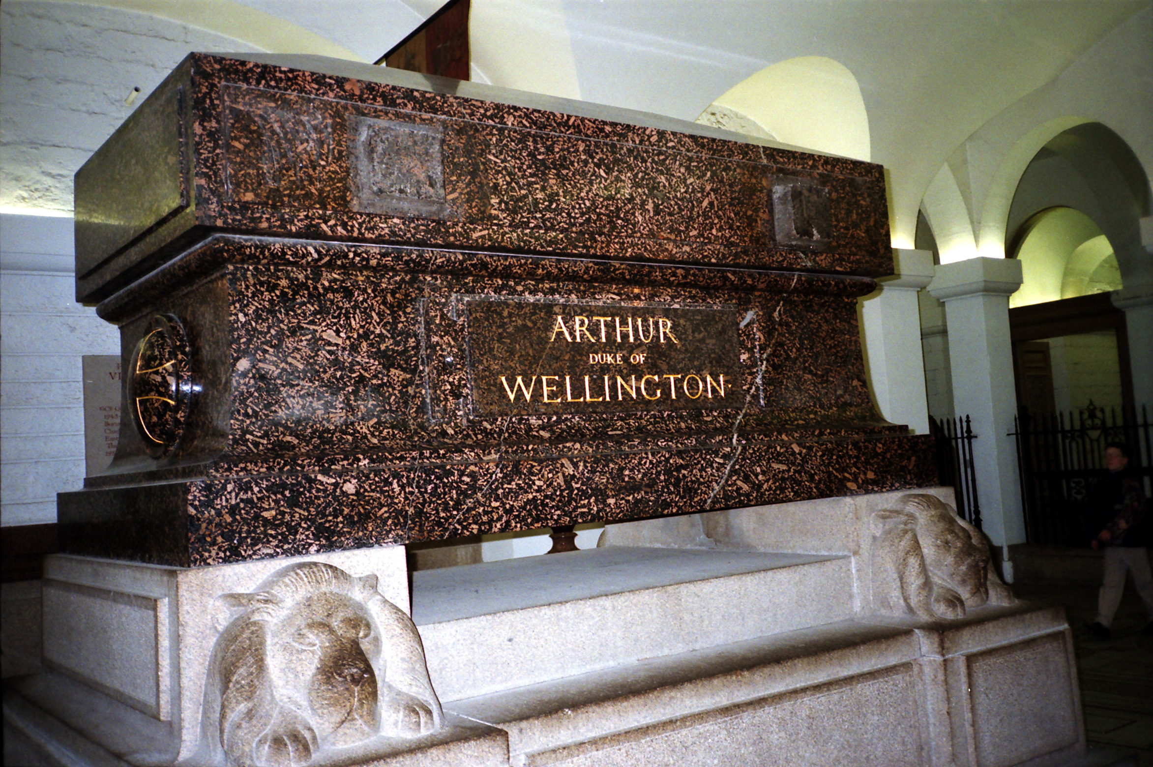 Tomb of Arthur Wellesley, 1st Duke of Wellington, Field Marshal, and former Prime Minister of the UK, Arthur Wellesley, 1st Duke of Wellington's tomb in Crypt of St. Paul's Cathedral.